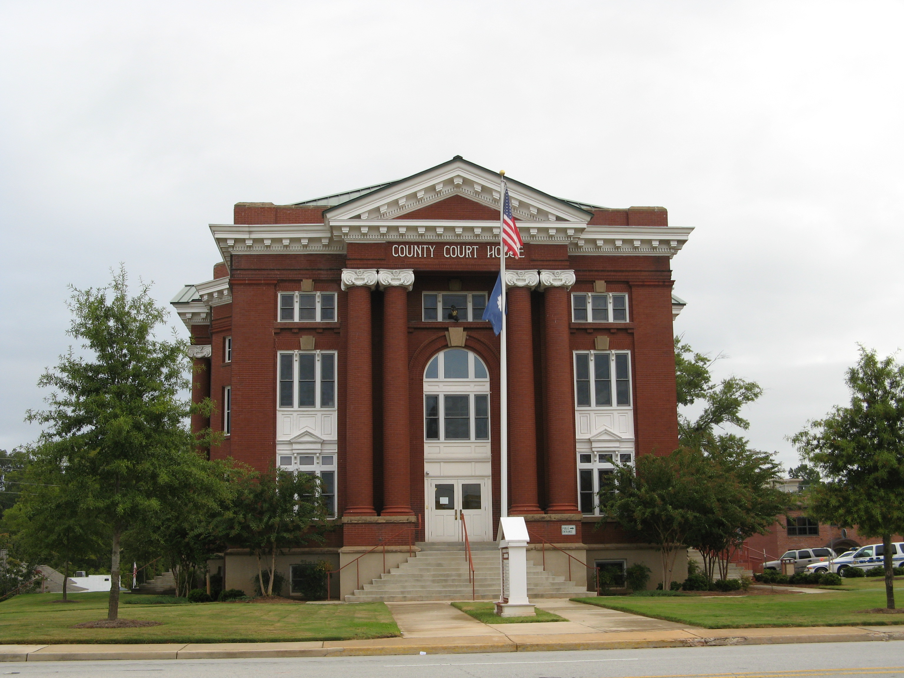 Front of the Newberry County Courthouse, located along College Street immediately south of the Harrington Street intersection in Newberry, South Carolina, United States. Built in 1908, the courthouse is part of the Newberry Historic District, a historic district that is listed on the National Register of Historic Places.